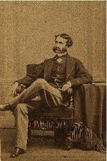 A photographic portrait of Augustine Heard